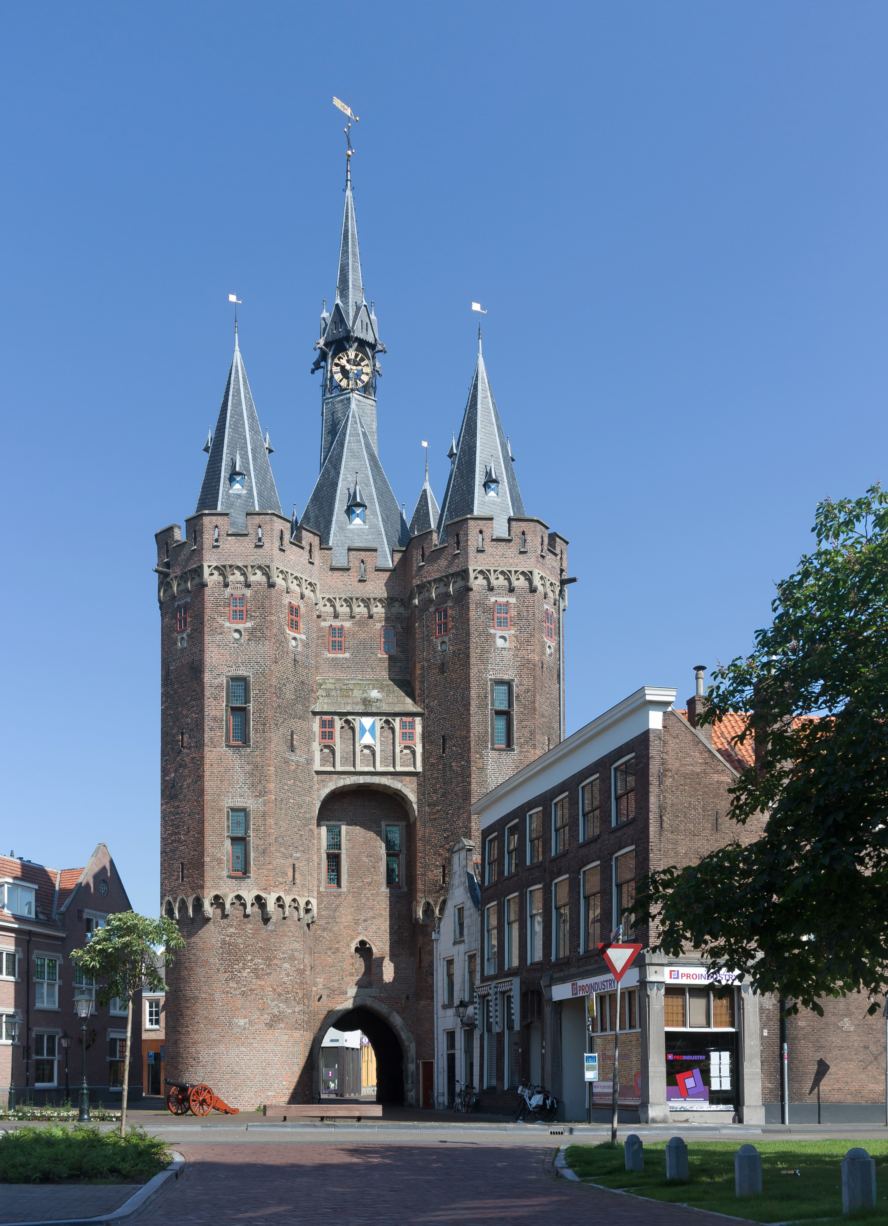 Zwolle, town-gate: de Sassenpoort